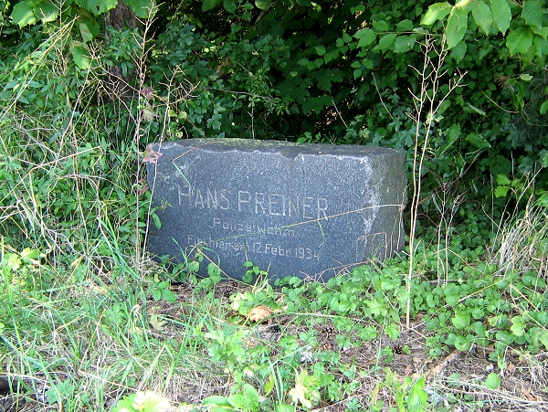 Memorial stone for police officer Hans Preiner, who was killed on February 12th, 1934 during the Austrian Civil War in the harbour of Linz, Austria